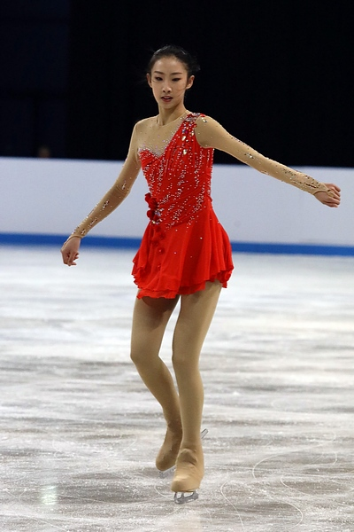 Photos – Junior World Championships 2018 – Ladies (Hongyi CHEN CHN – 18th Place)